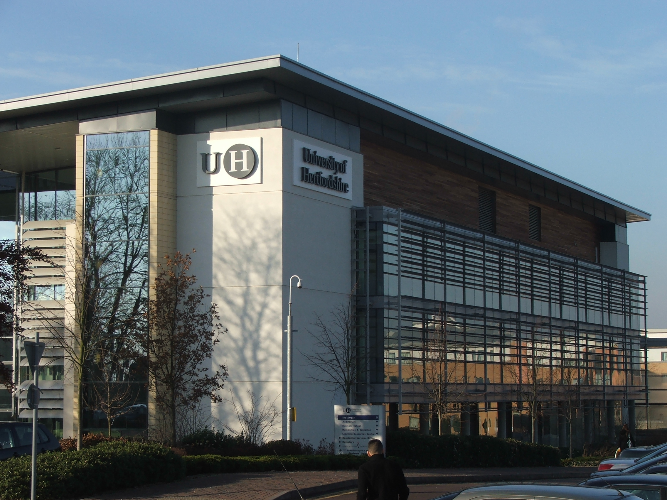 Picture of a building of University of Hertfordshire's (new and modern) de Havilland campus. Taken December, 10th, 2005 by Johannes Knabe.